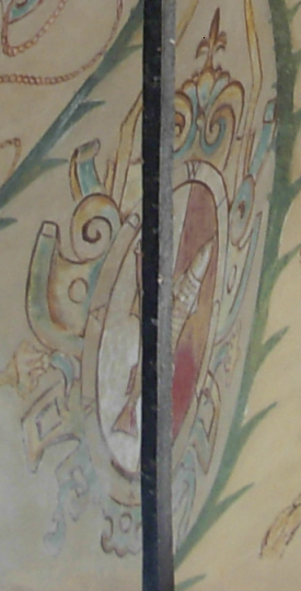 Wawdicz coat of arms in Baranow-Sandomierski castle. Detail of Image:Baranów Sandomierski - castle 04.JPG full resolution, by User:Piotrus and tagged with the same “self2.GFDL.cc-by-sa-2.5,2.0,1.0” license.